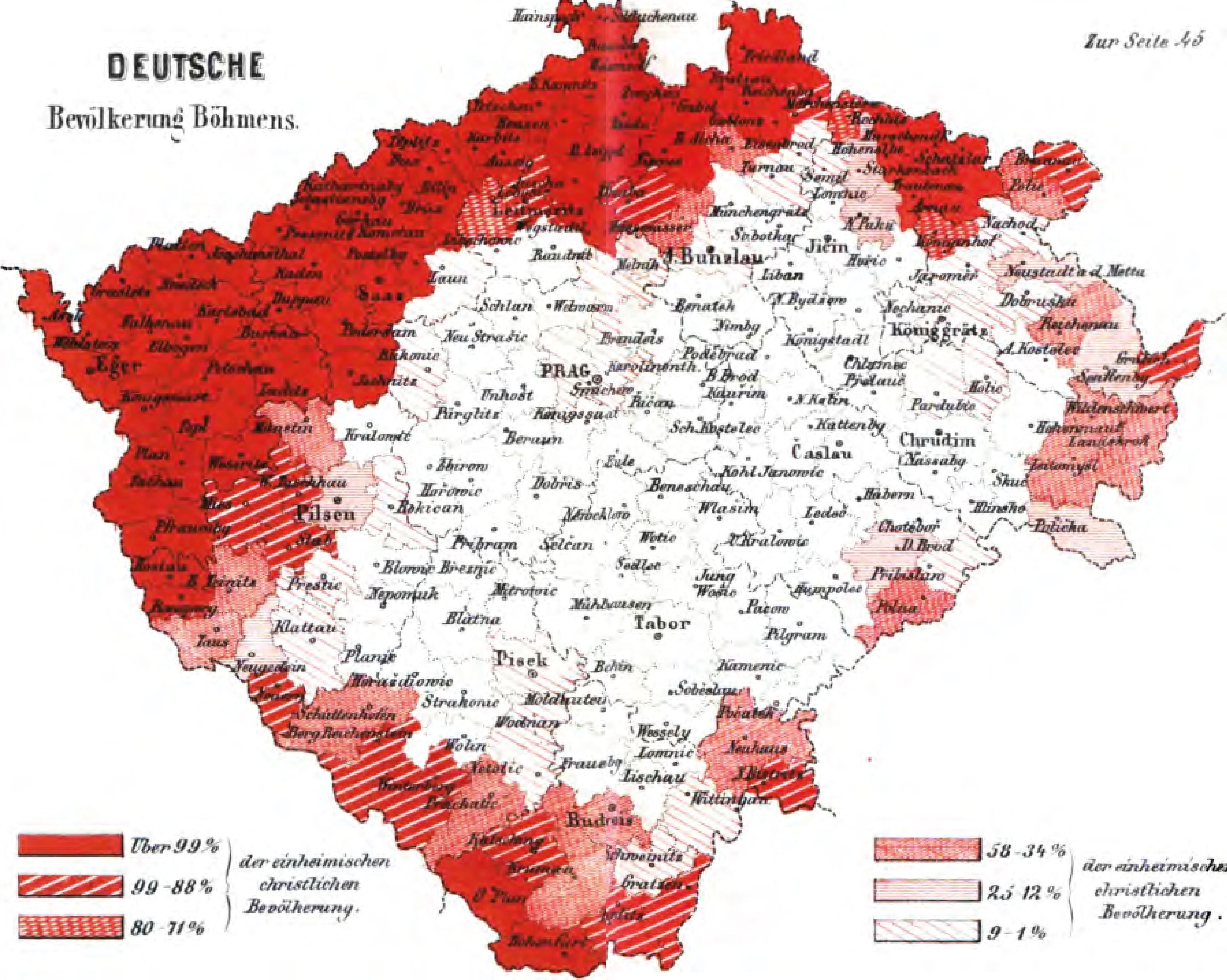 The German population of Bohemia. Taken from: Adolf Ficker: Die Bevölkerung des Königreichs Böhmen in ihren wichtigsten statistischen Verhältnissen. (The population of the Kingdom of Bohemia in its most important statistical relations) Wien und Olmütz, Eduard Hölzel's Verlag 1864